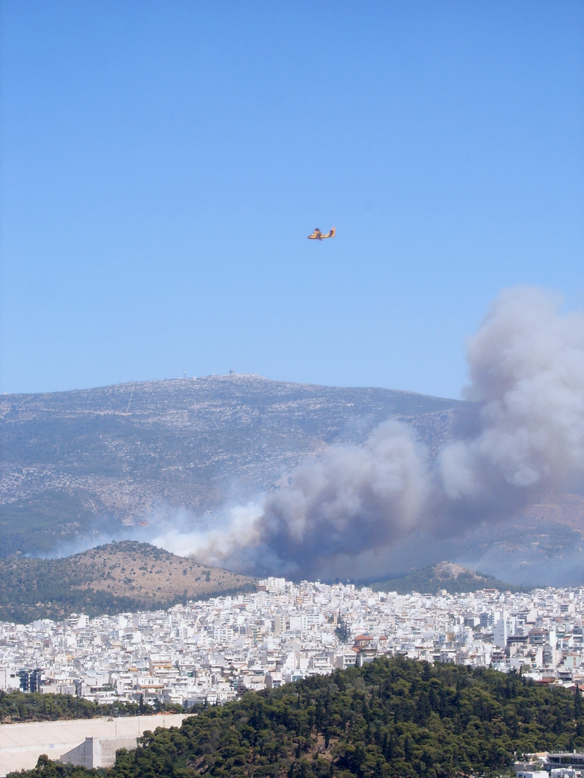 Athens bruning, from the Akropolis, and a Canadair aircraft